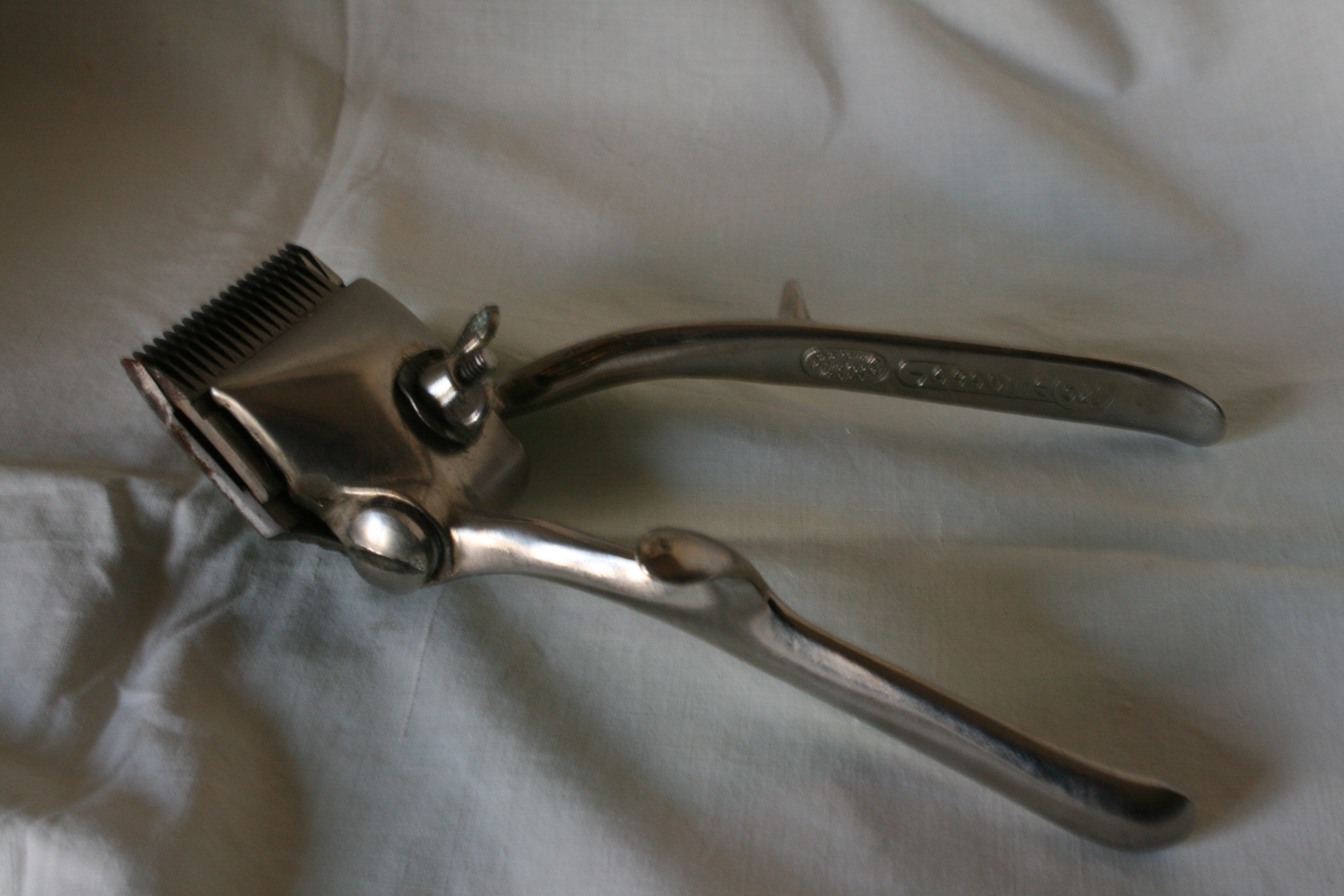 A pair of manual barber clippers, used for cutting hair too short.